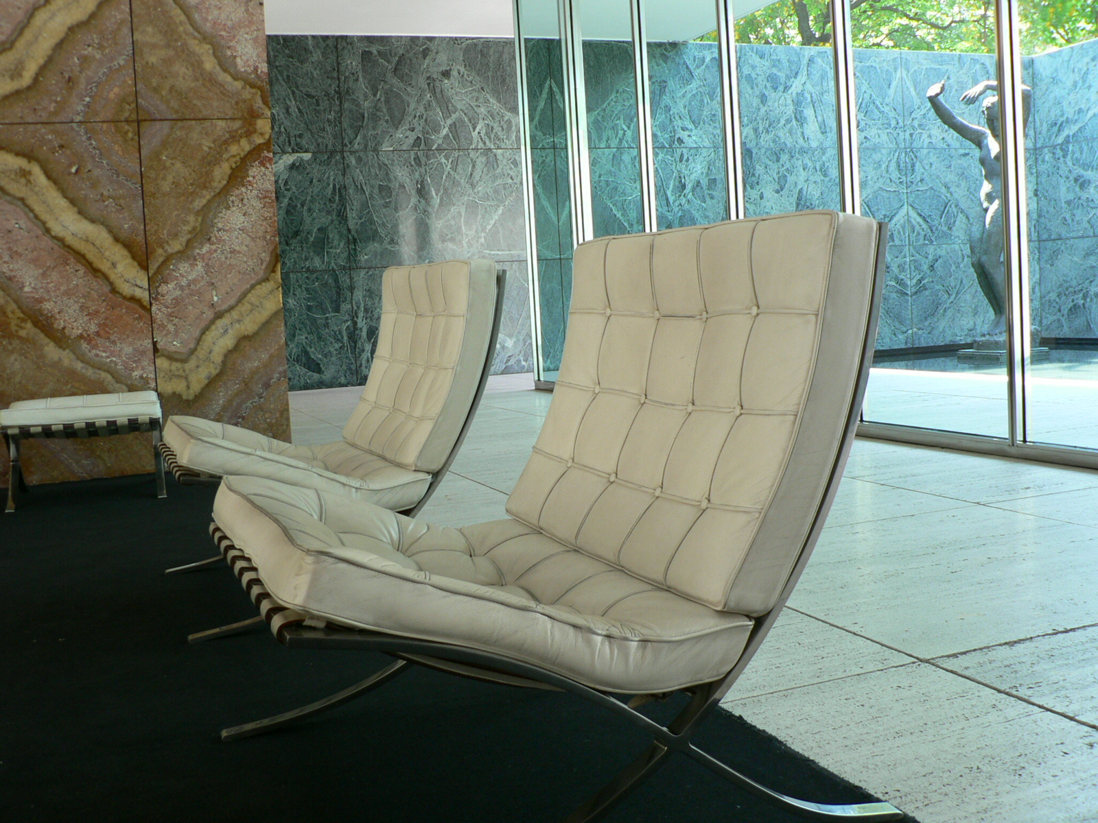 Reconstructions of the barcelona chair by mies van der rohe in the pavillion